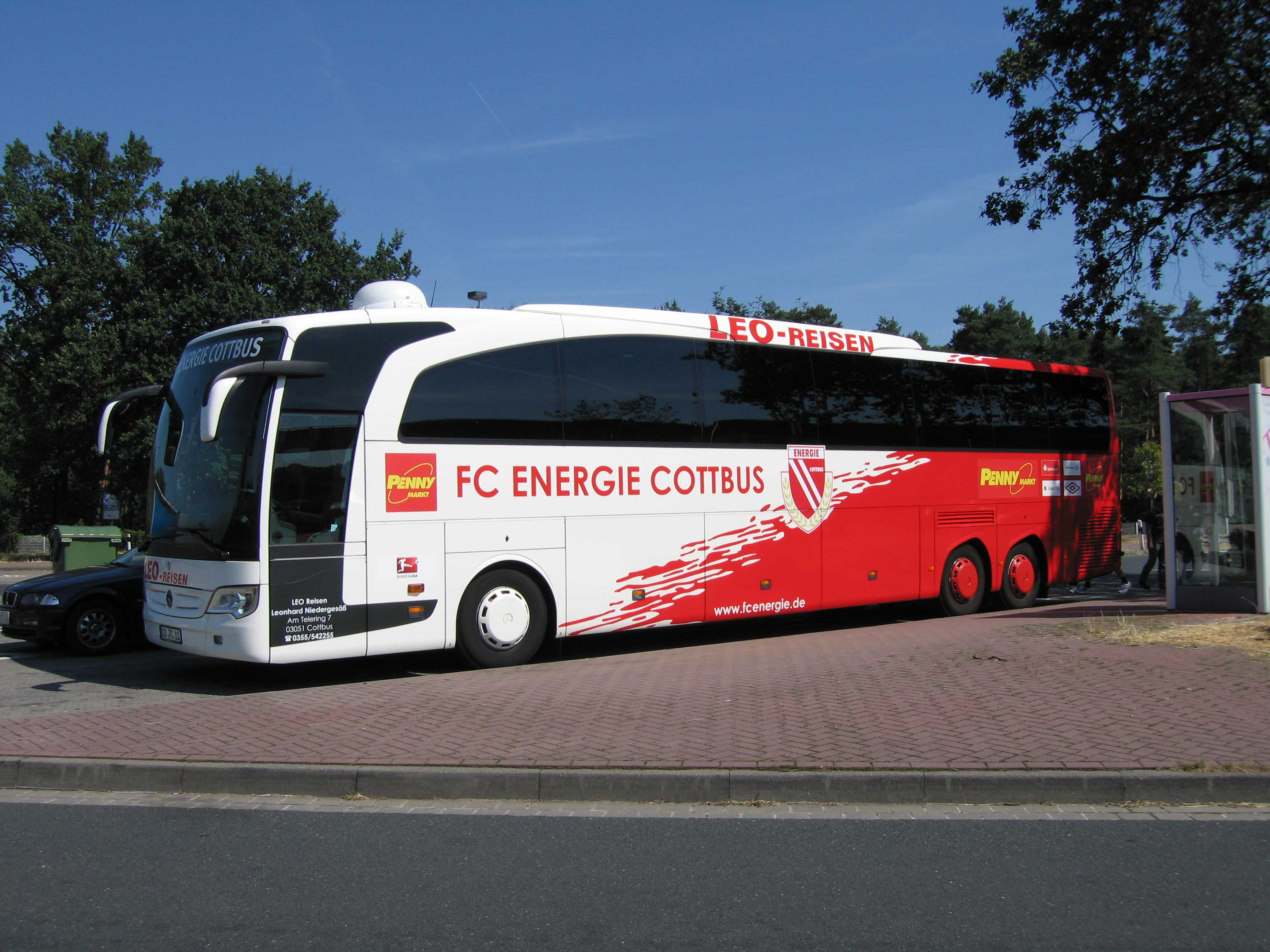 Mercedes-Benz Travego L O 580-17 RHD coach (reg. probably LE-FC 11) in Germany. FC Energie Cottbus football club team coach. LEO-Reisen from Cottbus operator. I have to thank flickr member stilo95hp for allowing me to show this photo which didn't quite fit in with his narrow field of DDR remains and Ostalgie, even though this team existed in the DDR from 1963 onwards. And Energie continues to prosper with a good number seasons in the Bundesliga first division of the united Germany.. The full details of the actual team's bus are on this page -....22 Feb 2008 The owner of the bus company is an now an Ehrenburger of Cottbus. It was founded in 1948 by Felix Niedergesaess The rather difficult to find website of the firm features a pic of three Ikarus buses from DDR times but not much comment on running a business then (although some ex-DDR coach companies do) See here...